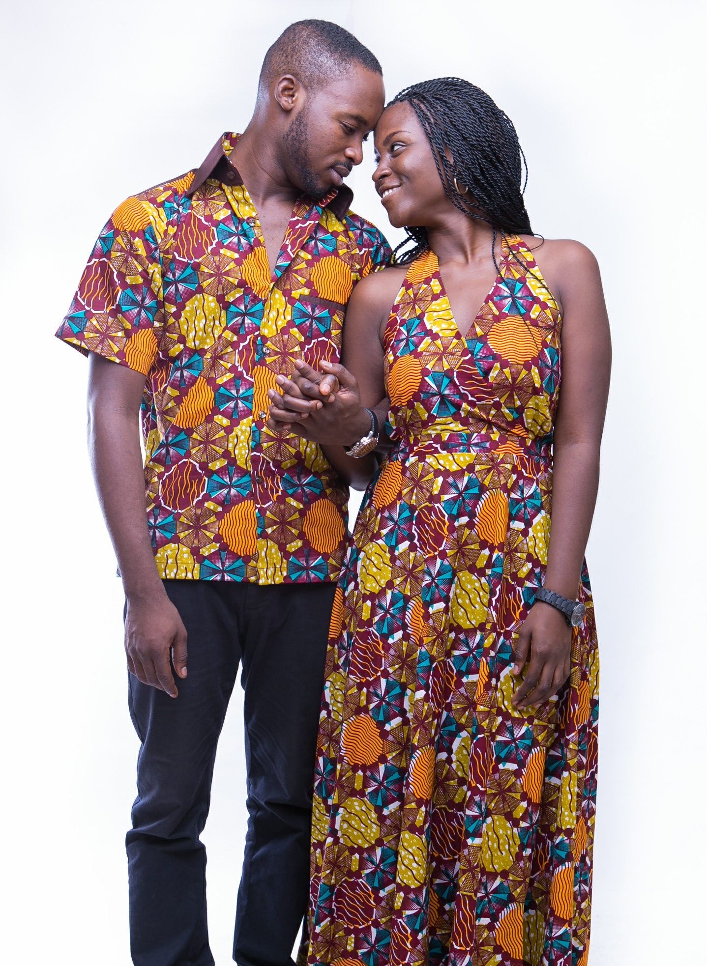 Couple intimately posed in matching African print outfits. Each to compliment each other. This is an image of Cultural Fashion or Adornment from Ghana